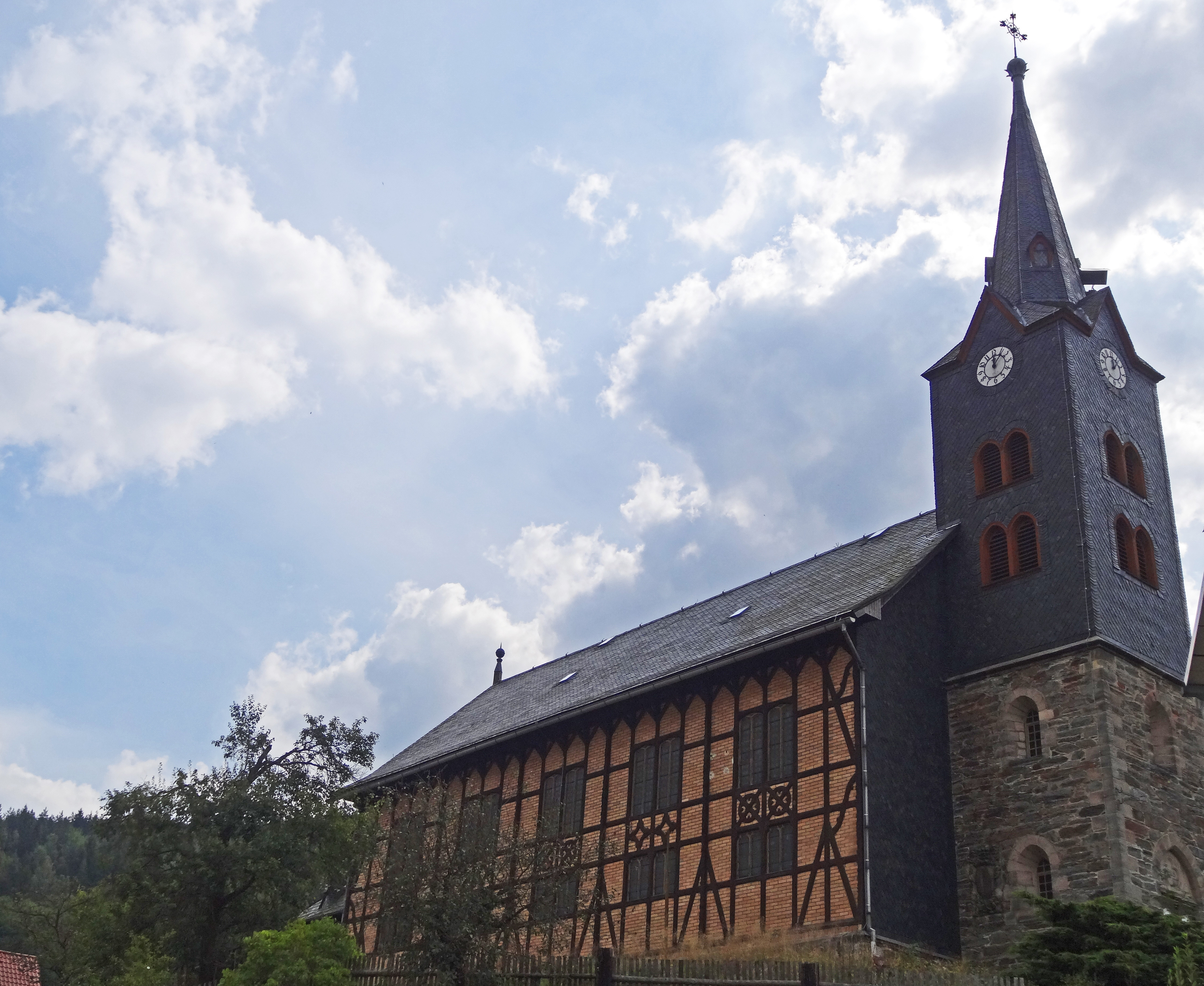 Church in Mellenbach, Thuringia, Germany